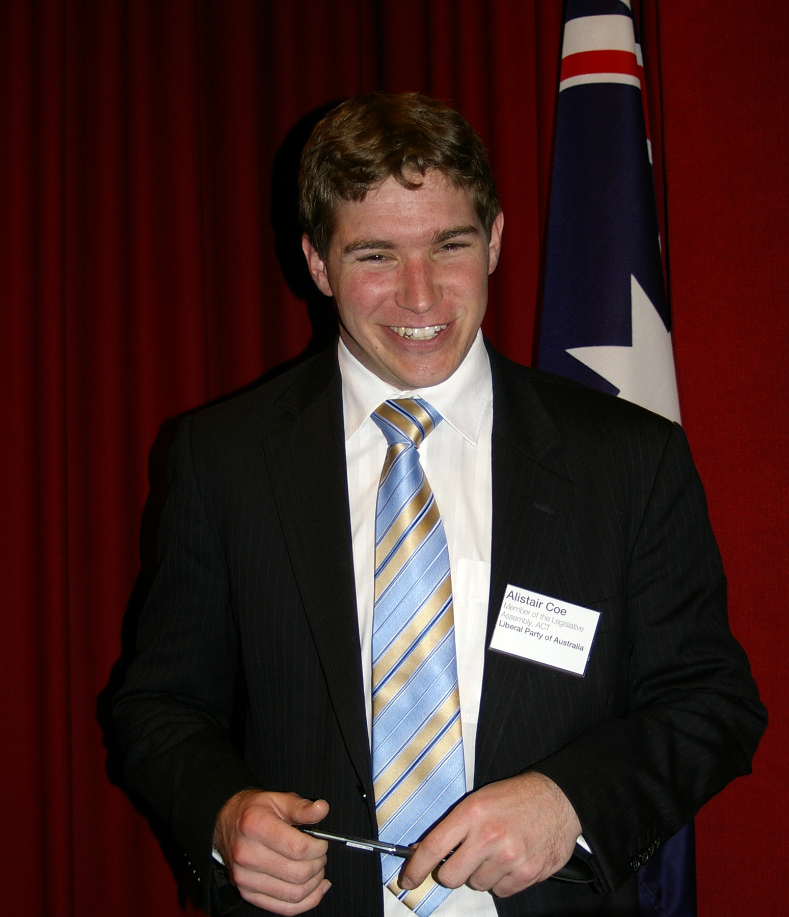 Liberal MP Alistair Coe at GLAM-WIKI at the Australian War Memorial in Canberra, Australian Territory.